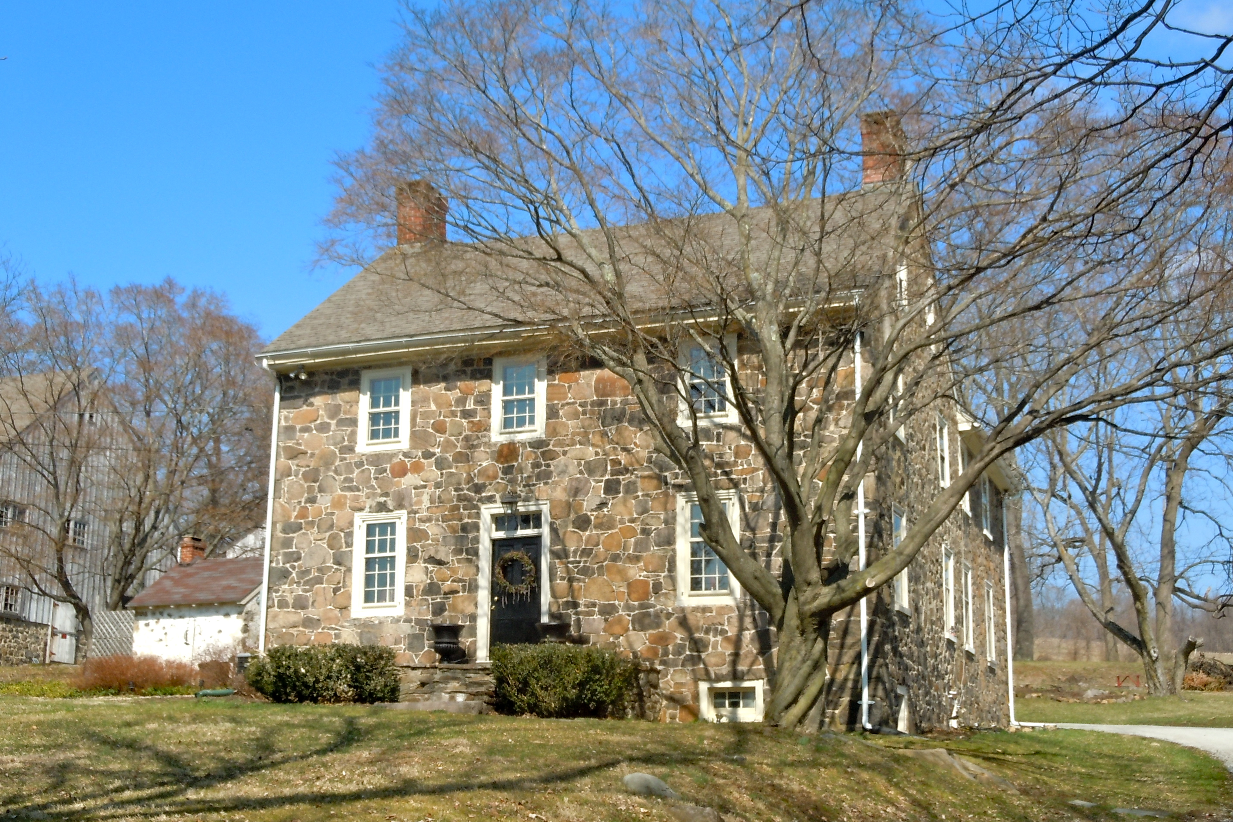 Hance House and Barn on the NRHP since September 16, 1985, on Pennsylvania Route 842 in East Bradford Township, Chester County, Pennsylvania. Barn (out of picture to the left) is just starting to fall down